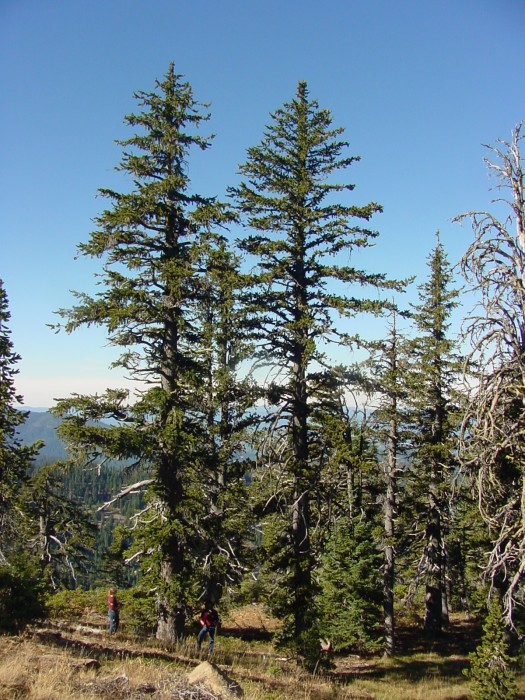 Pinus balfouriana subsp. balfouriana